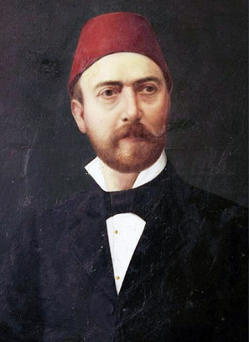 Painting of Sadullah Pasha (1838–1891)